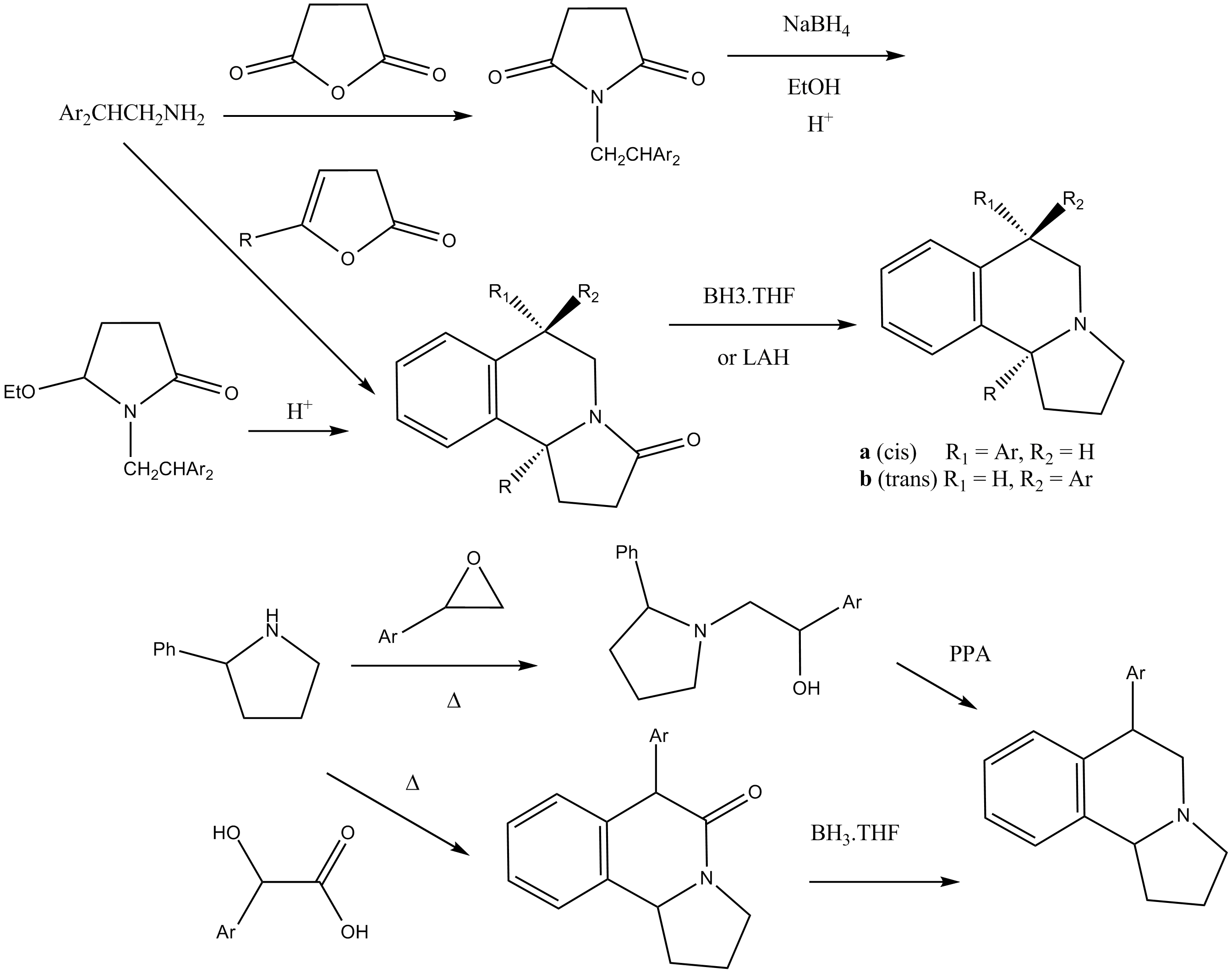 Summary of main reactions to make certain Pyrroloisoquinoline compounds.